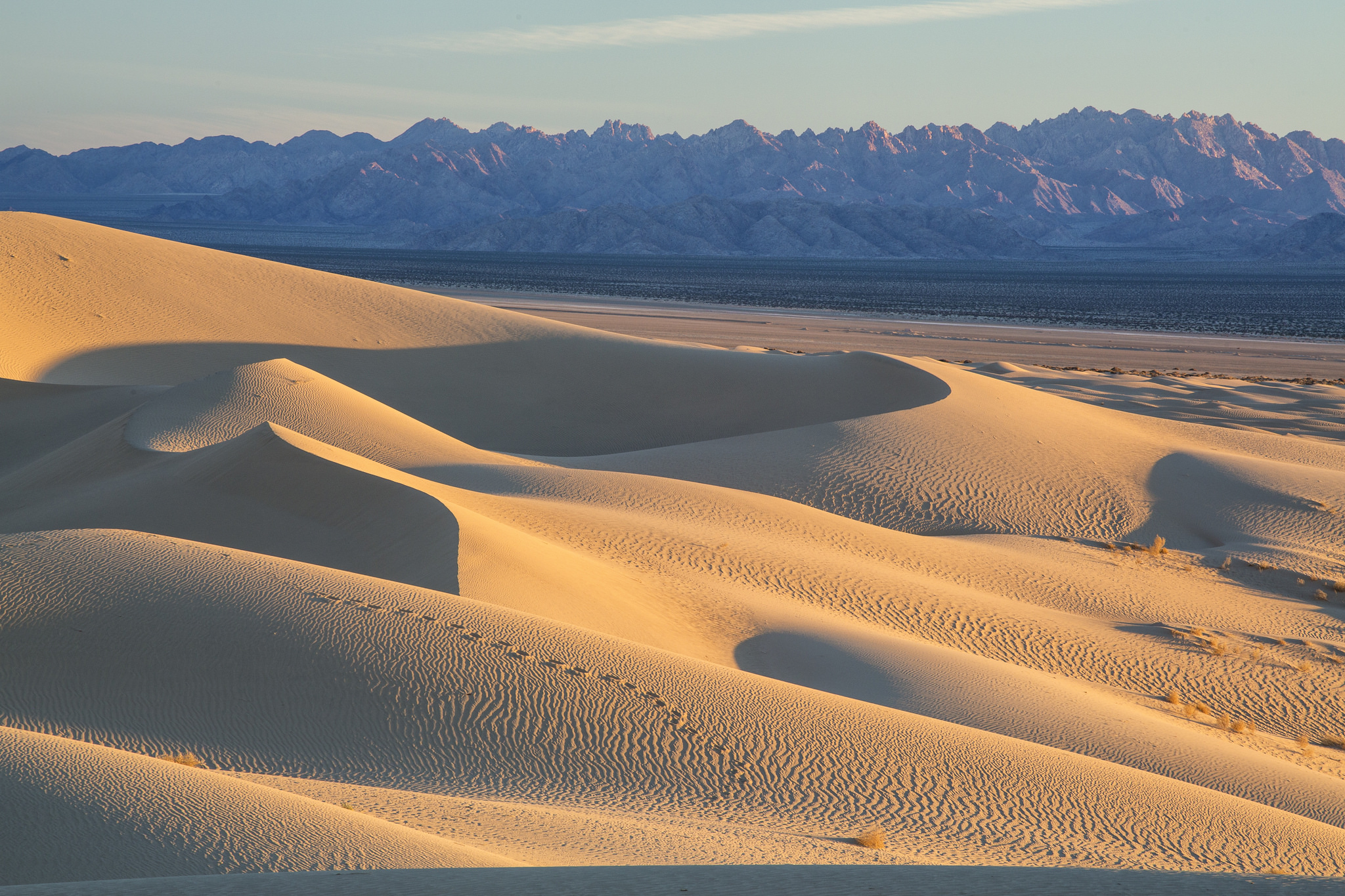 The 19,935 acre Cadiz Dunes Wilderness encompasses a major portion of the Cadiz Dune system and desert shrub lowlands just east of the dunes. These small dunes were formed by north winds pushing sands off the Cadiz Dry Lake. The pristine nature of the dunes and the beautiful spring display of unique dune plants have made the area a favorite for photographers. Wildlife tracks provide evidence of including coyote, black-tailed jackrabbits, kangaroo rats, quail and roadrunners, rattlesnakes, and several species of lizards. Photo by Bob Wick, BLM